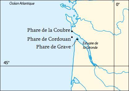 Map of the 3 lighthouses of the Gironde estuary in France.